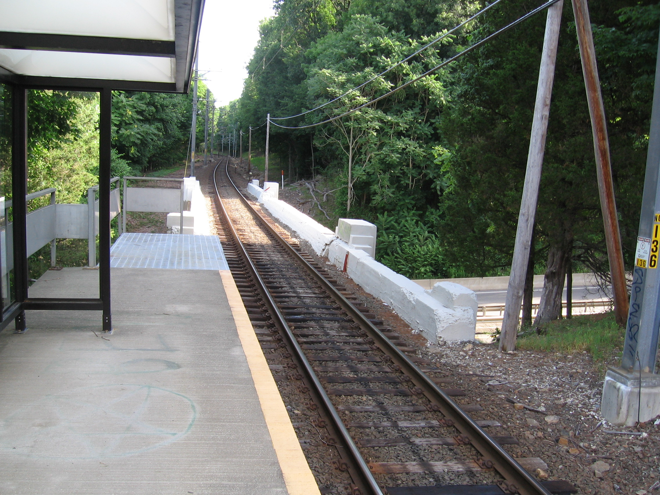 North end of the platform at the Talmadge Hill in New Canaan, showing the bridge over the Merritt Parkway just at the end of the station.